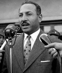 Cropped picture of Abdel Latif Boghdadi addressing a conference in Syria at the establishment of the United Arab Republic. In the original photo, Boghdadi is flanked at the right by President Gamal Abdel Nasser and at the left by Abdel Hamid Sarraj